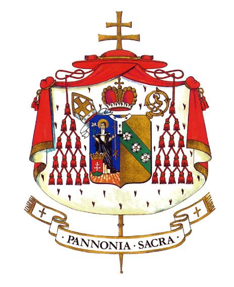 Coats of arms of Cardinal József Mindszenty